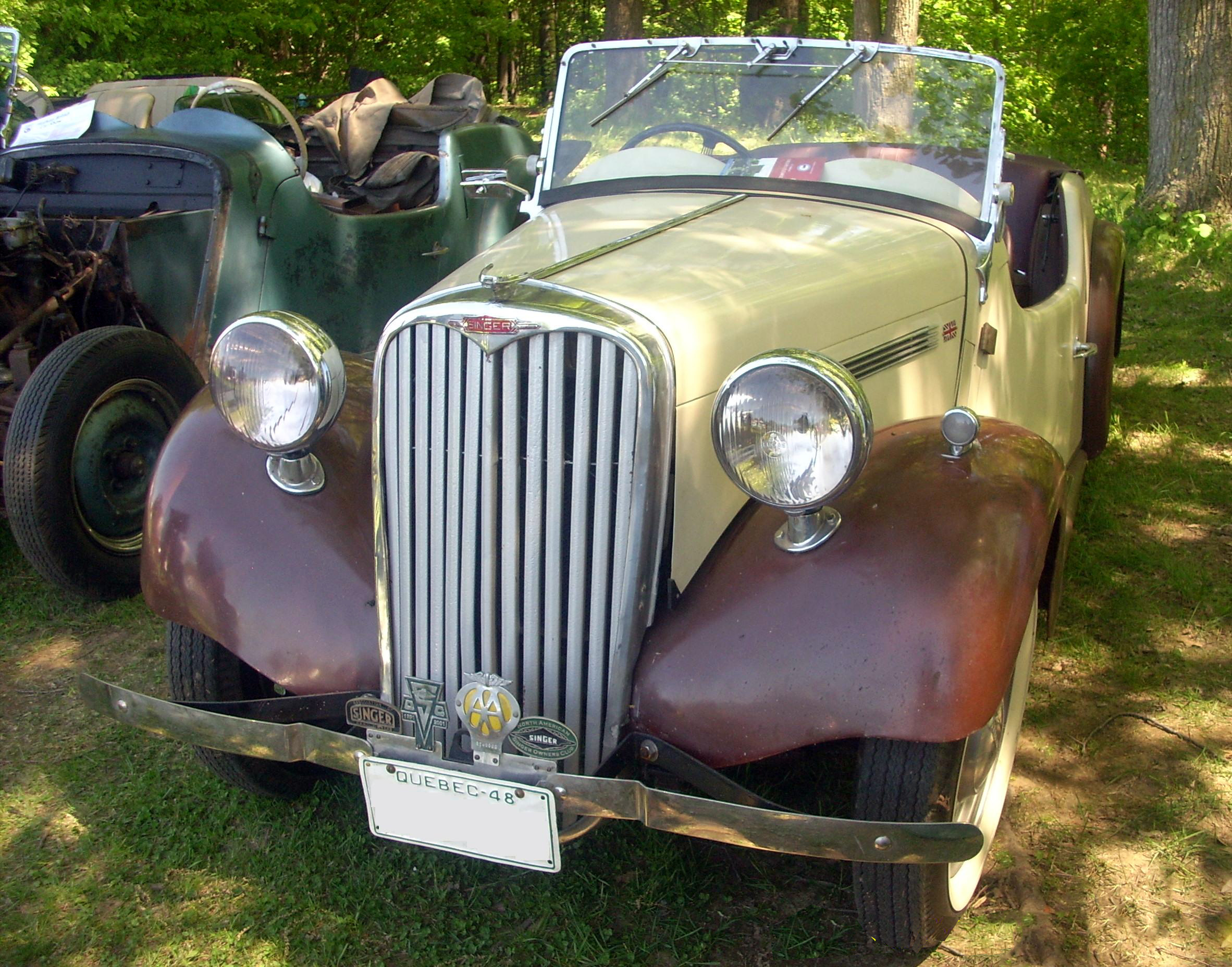 1948 Singer 9 photographed at the 2008 Hudson British Car Show.